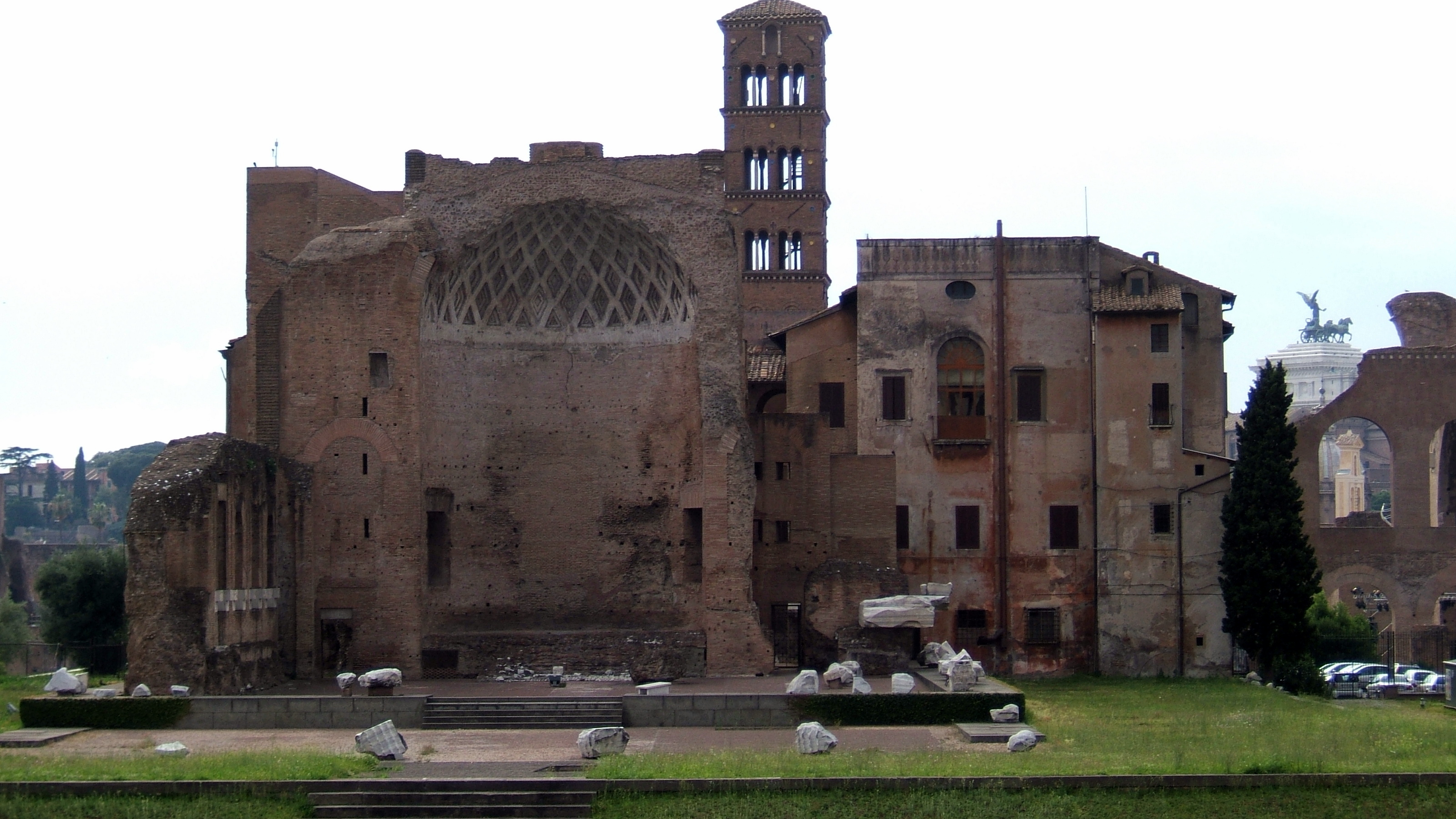 2007-06-08 in Rome